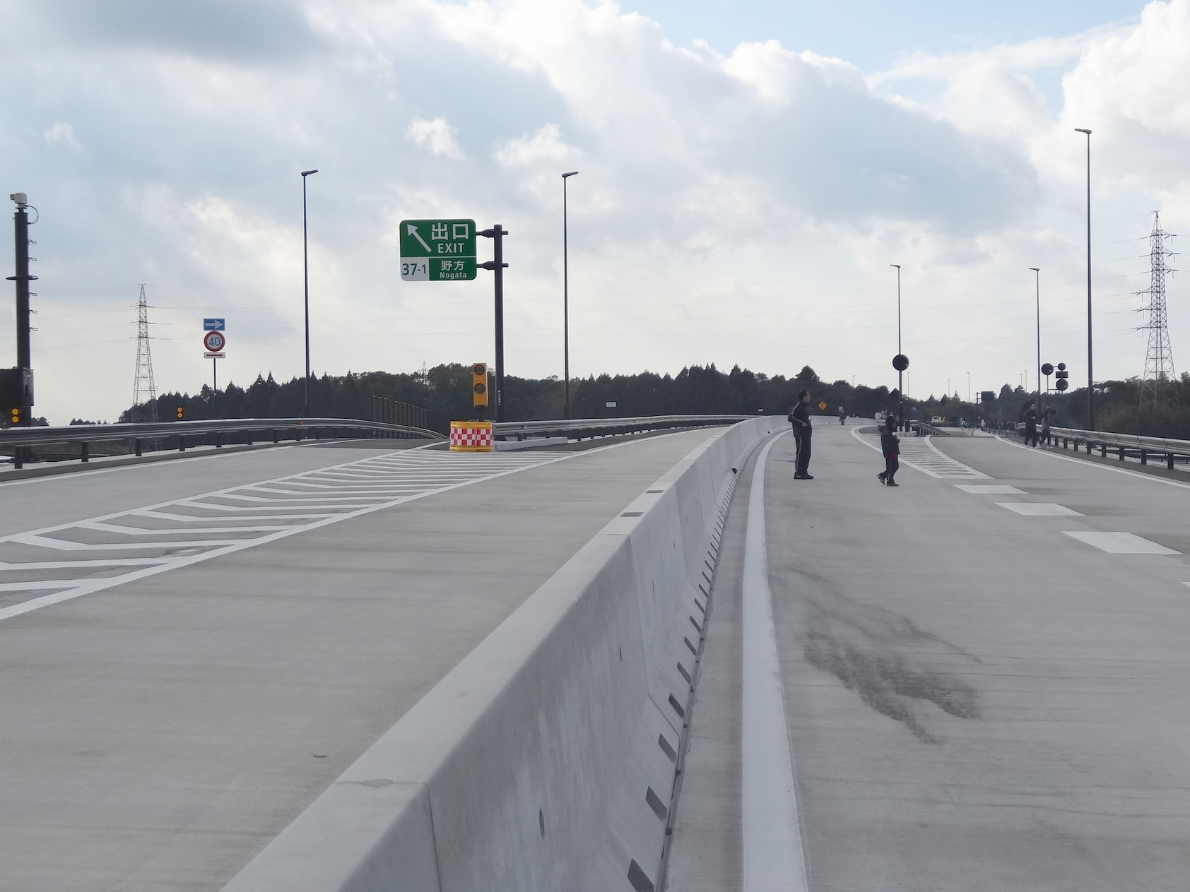 The Higashi-Kyushu Express Way Nogata Interchenge at Arasano, Nogata, Osaki Town, Kagoshima Prefecture, Japan.